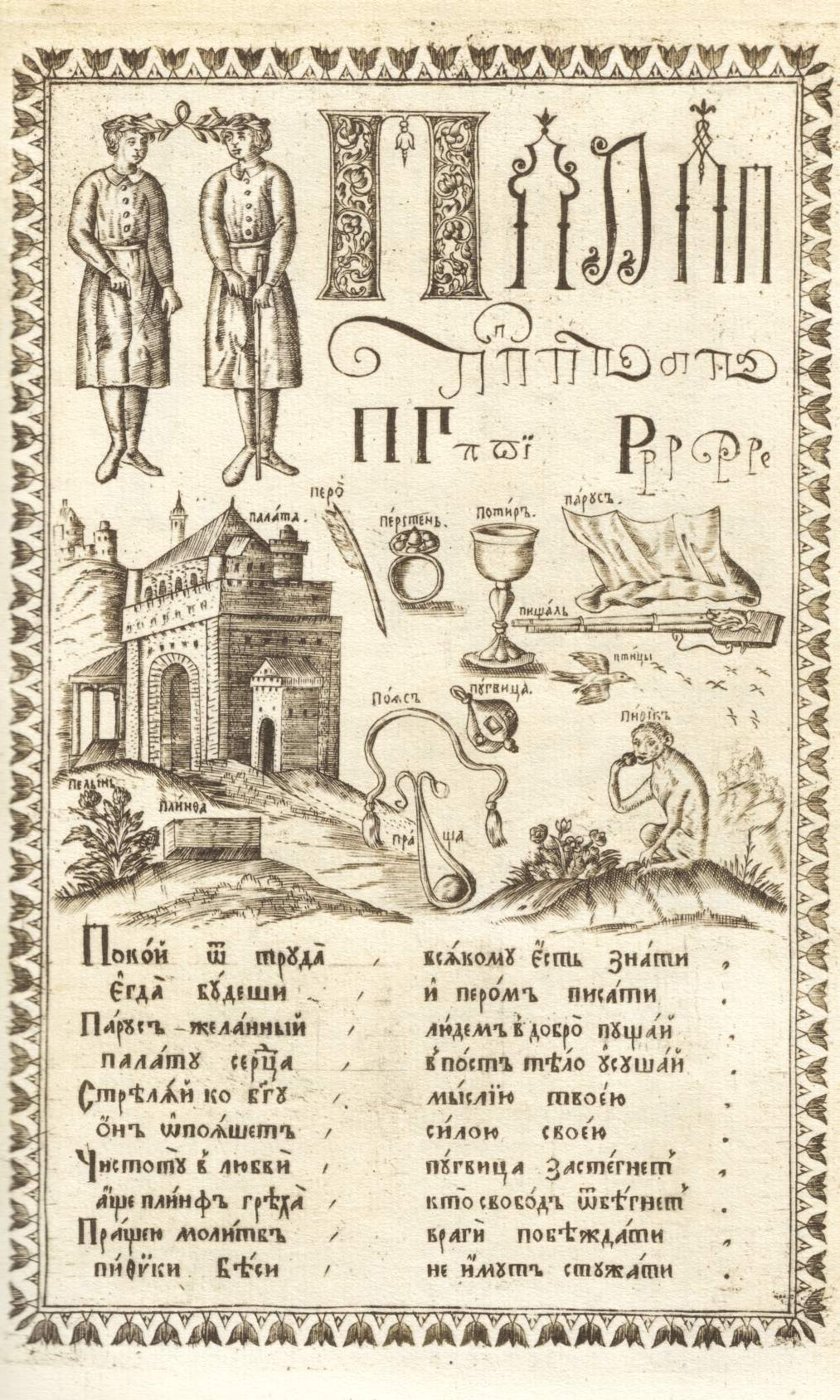 Karion Istomin's alphabet book, letter П